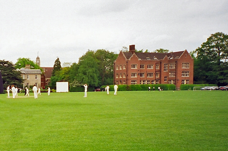 Photo by Paddy Briggs